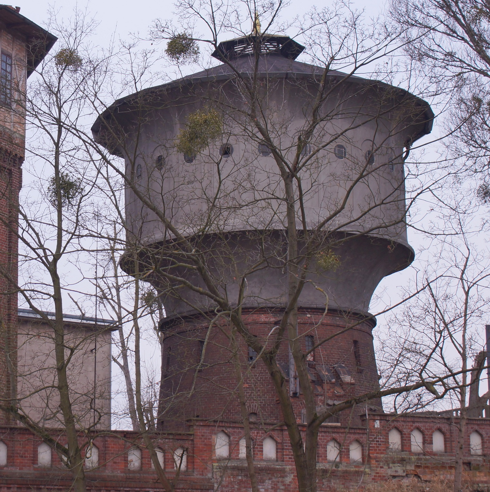 Iława, water tower, built in 1915